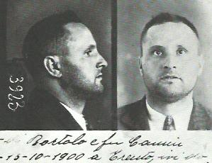 Carlo De Stefani